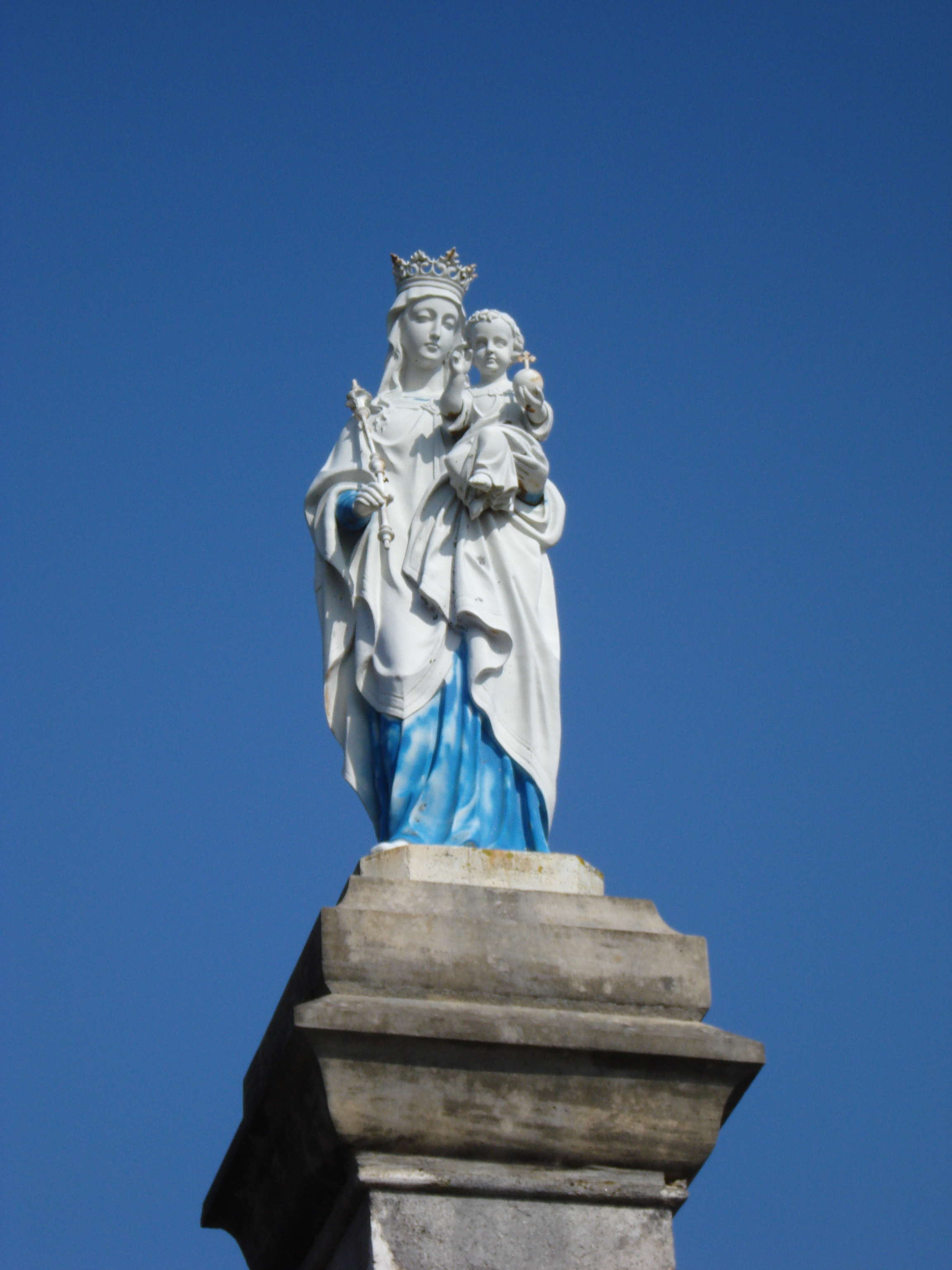 Virgin of Malbrans, Doubs, France